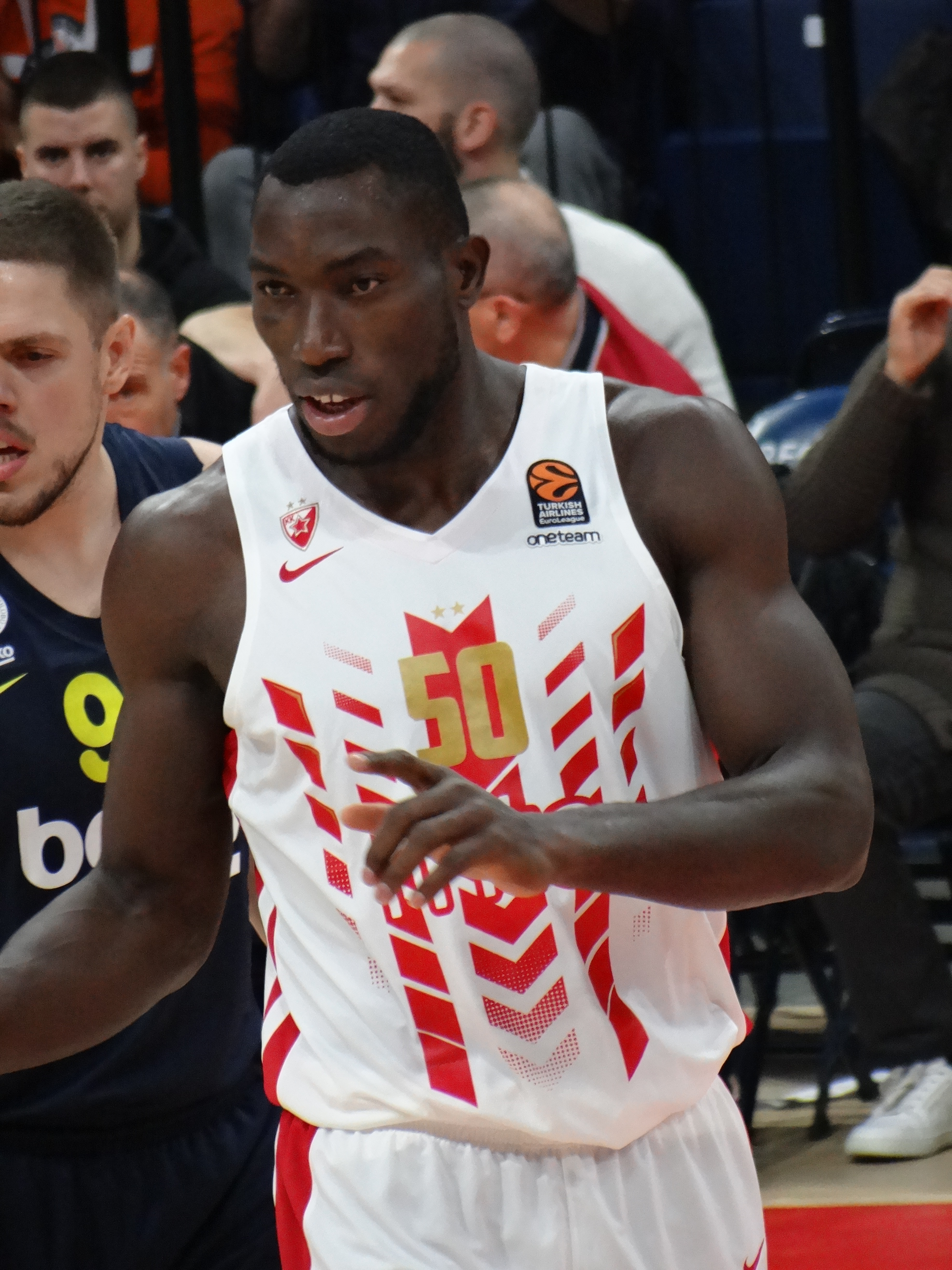 Michael Ojo (basketball, born 1993) 50 KK Crvena zvezda EuroLeague 20191010